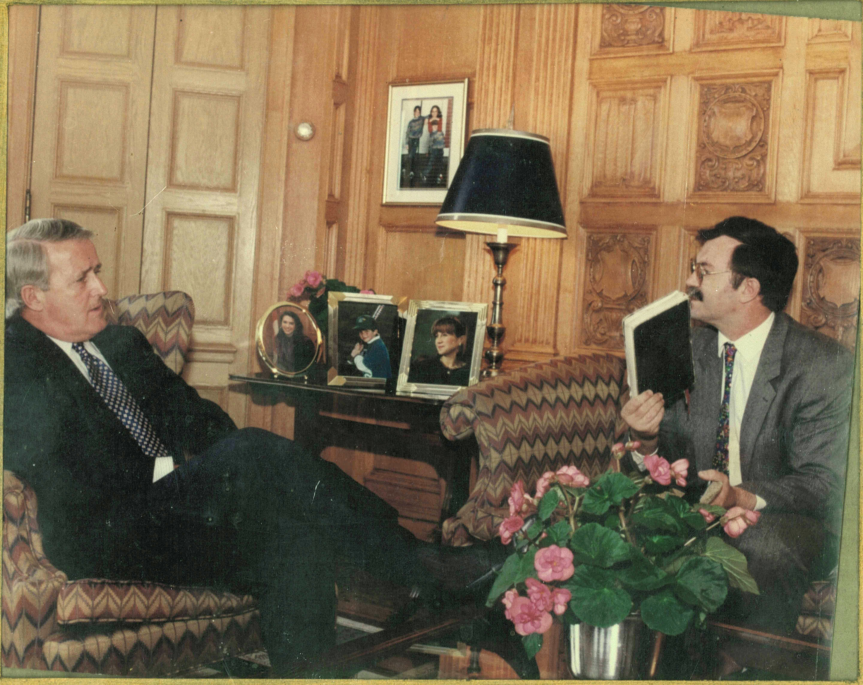 Milan Mladenović with Prime Minister of Canada Brian Mulroney.